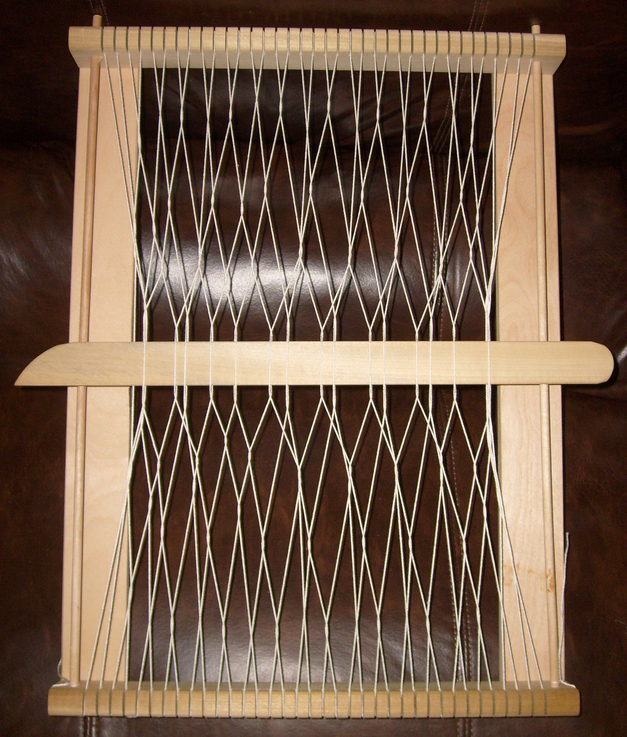 Demonstration example of sprang under construction on a lap loom.